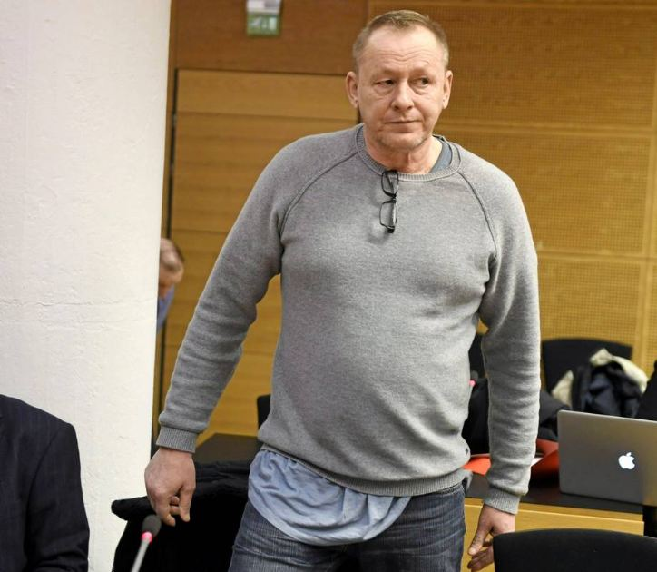 Keijo Vilhunen photo